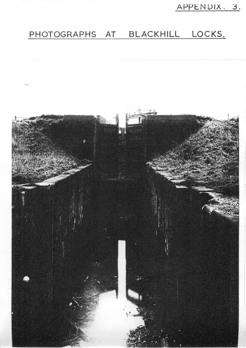 Scan of photograph of Blackhill locks from appendix 3 of Accidents in Glasgow canals with special reference to the Monkland Canal.